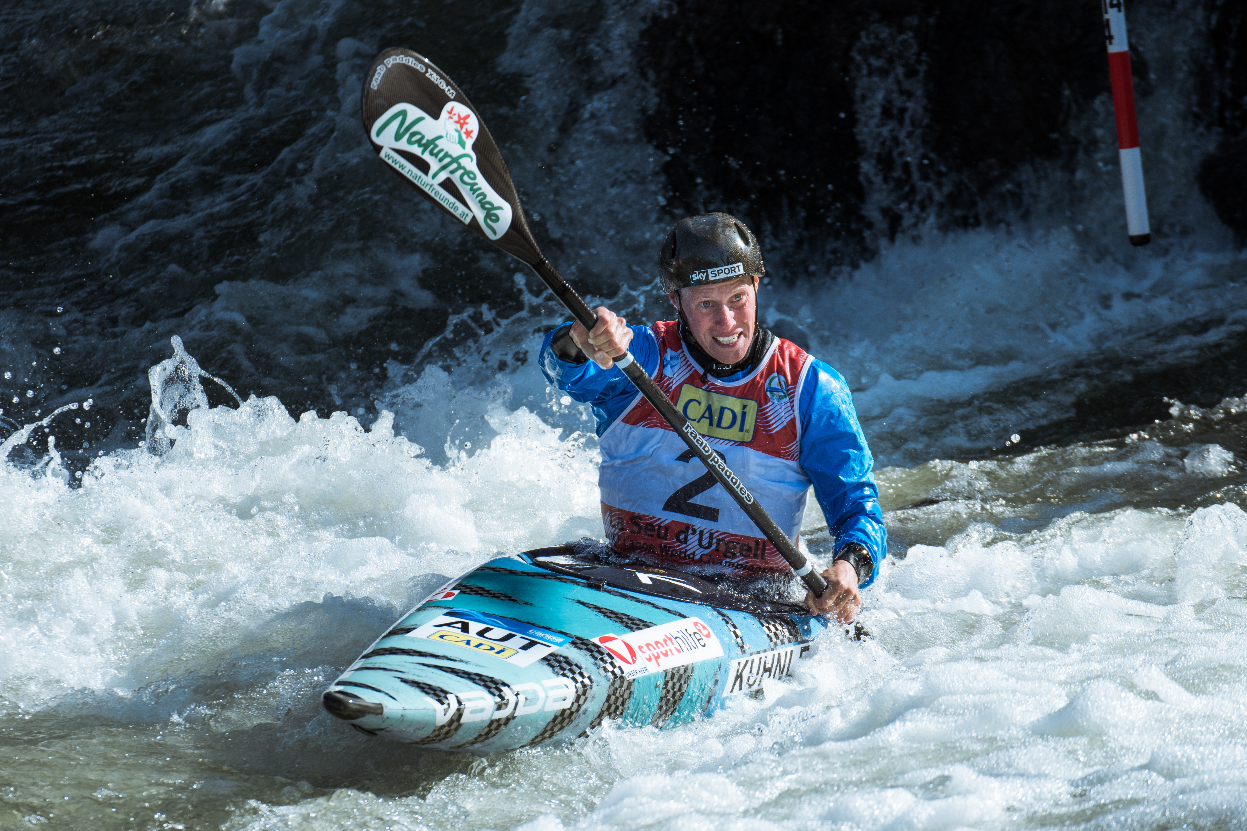 Corinna Kuhnle during the 2019 Canoe Slalom World Championships in La Seu d'Urgell, Spain.